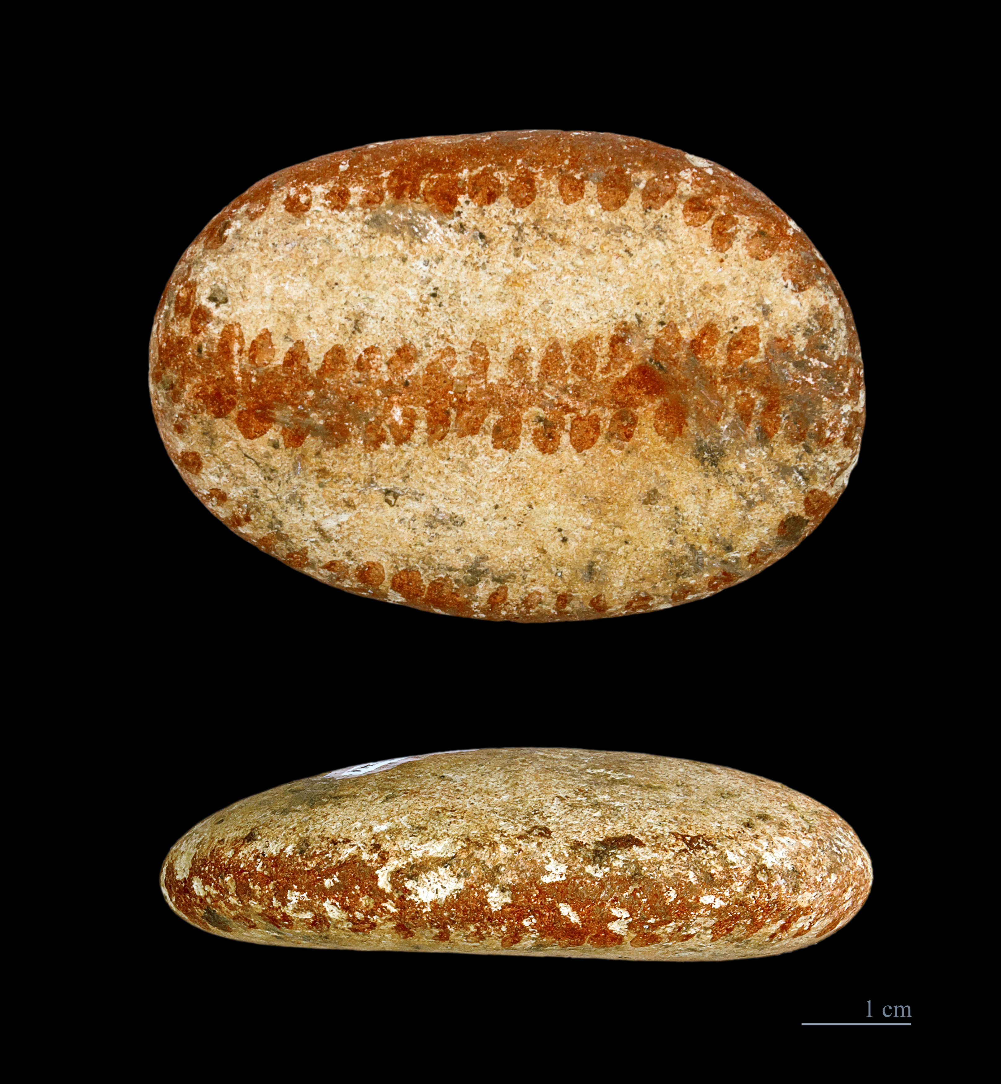 Painted pebble Stage : Azilian (from -12 000 to – 9 500 yrs befort present) Locality: Le Mas-d'Azil, Ariège department, France Former collection of French naturalist JEAN MIQUEL (1859-1940) Different views of the same specimen.